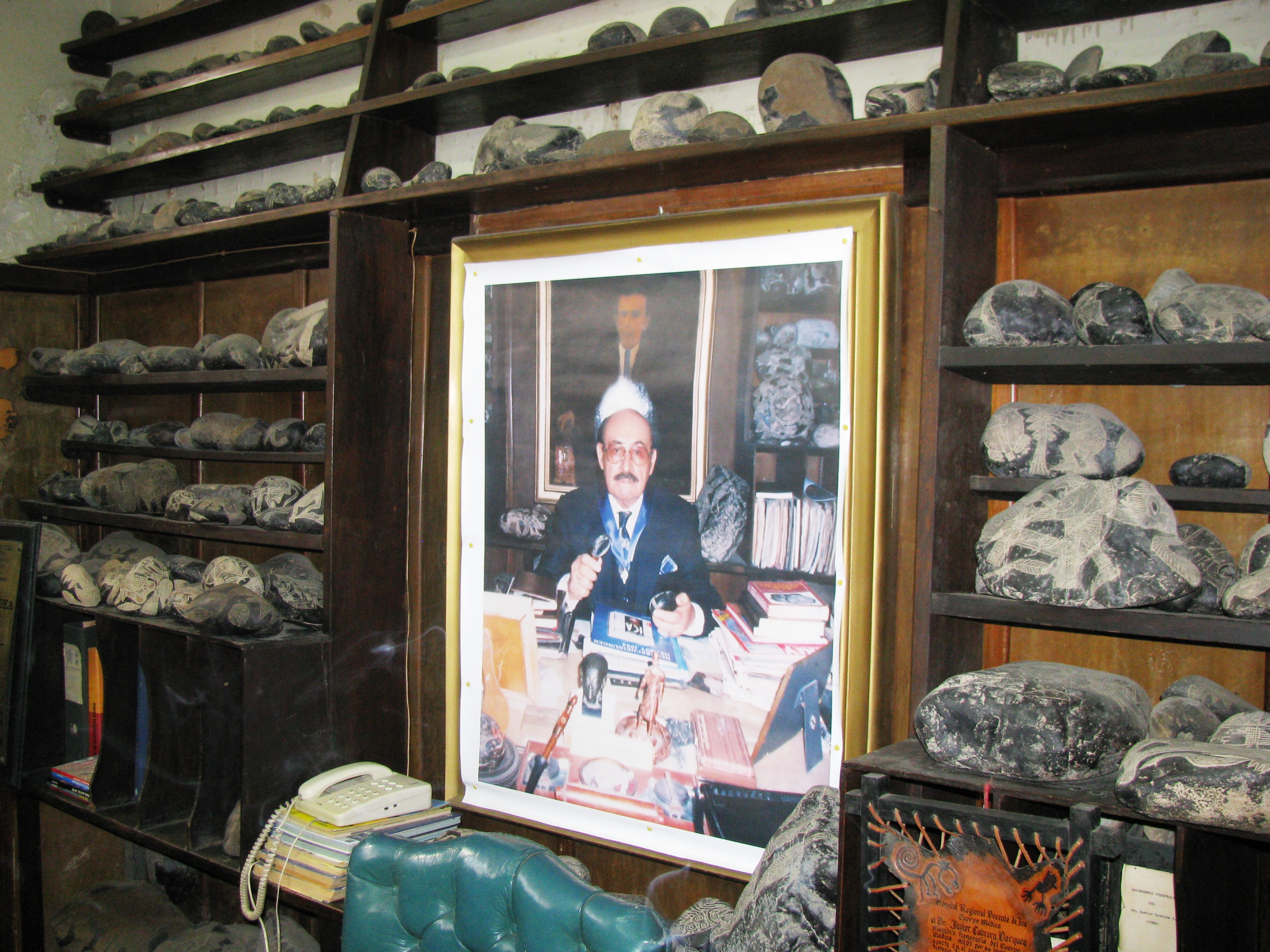 Ica stones